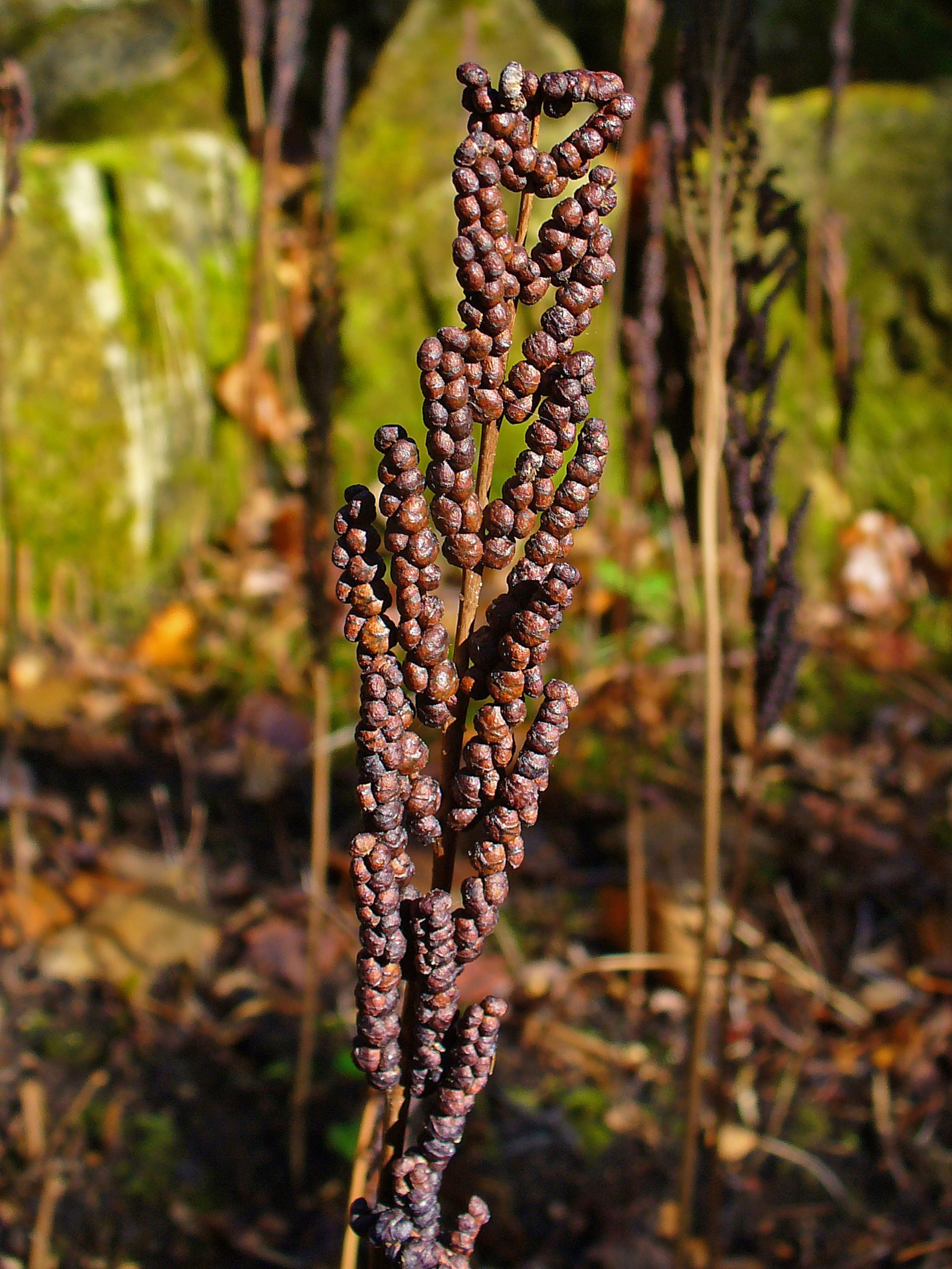 Onoclea sensibilis, Onocleaceae, Sensitive fern, Bead fern, sori (“beads”); Botanic Garden Universiy Tübingen, Germany.